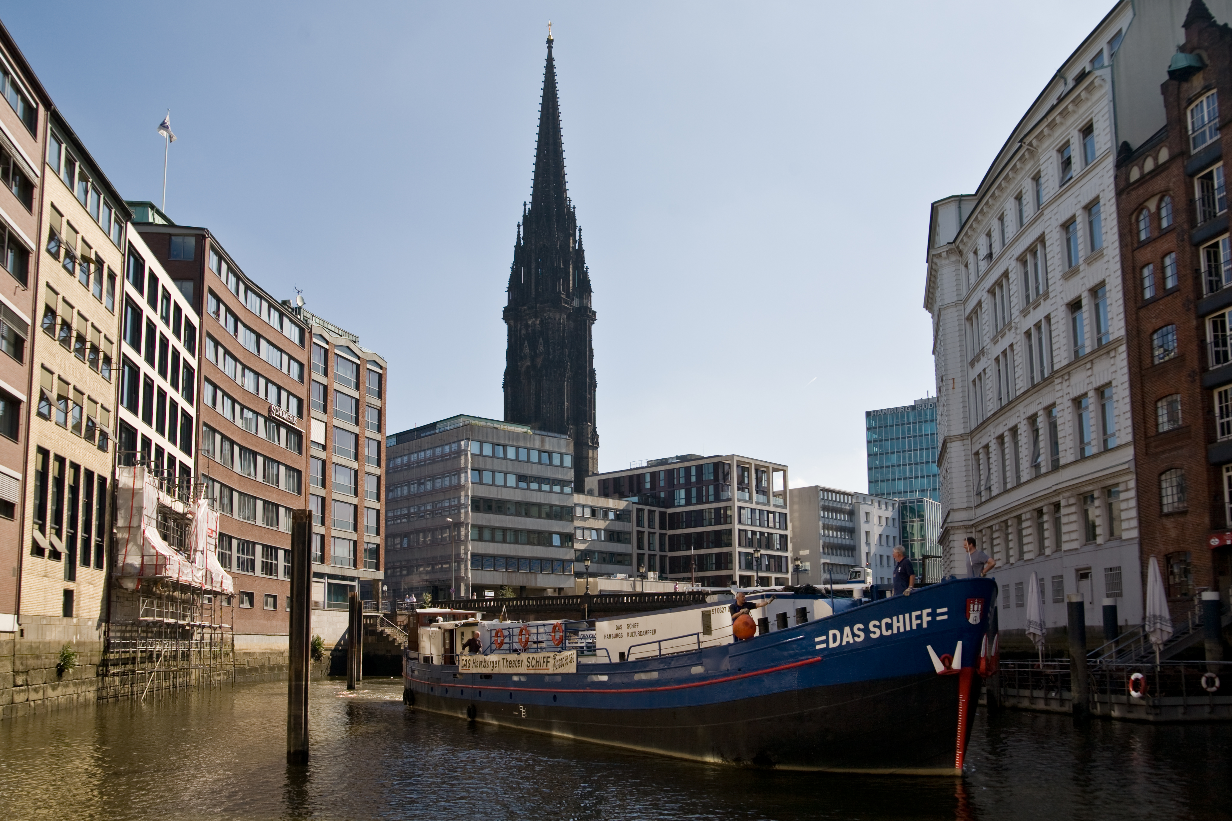 DAS SCHIFF verlässt den Nikolaifleet